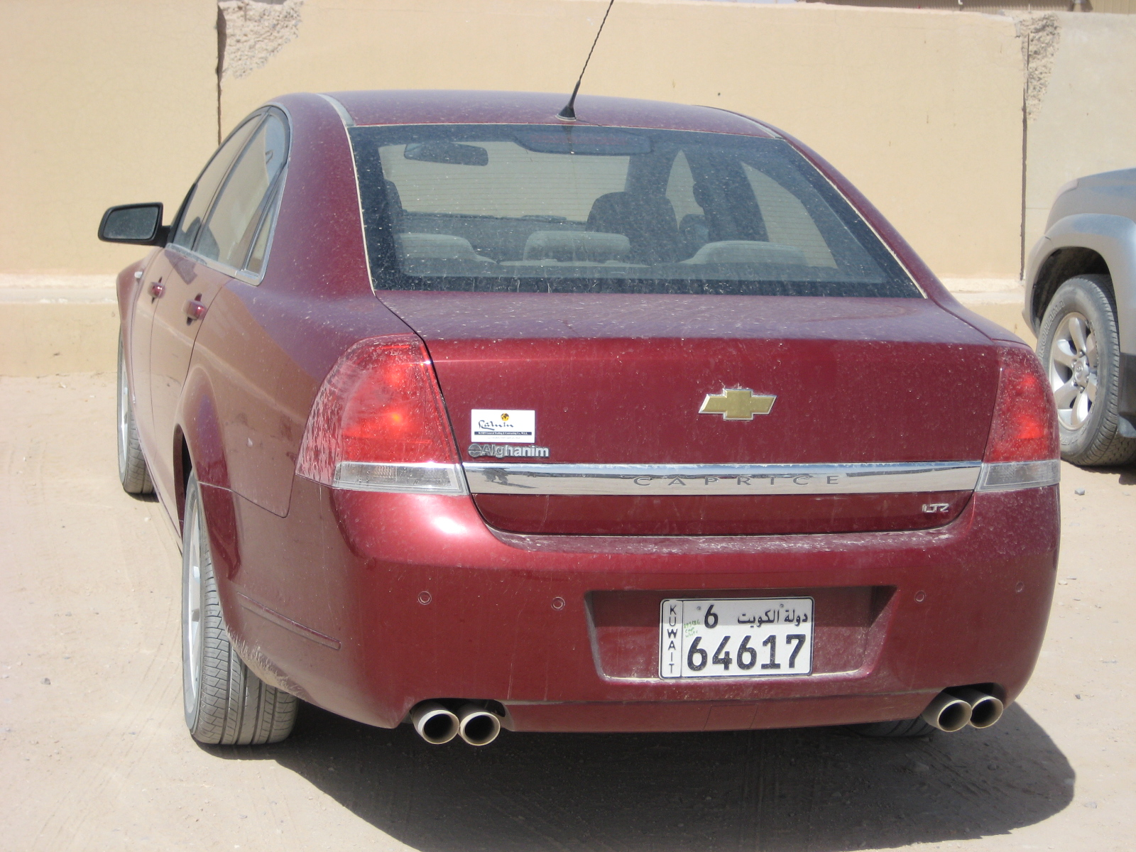 2008 Chevrolet Caprice, photographed in Kuwait.